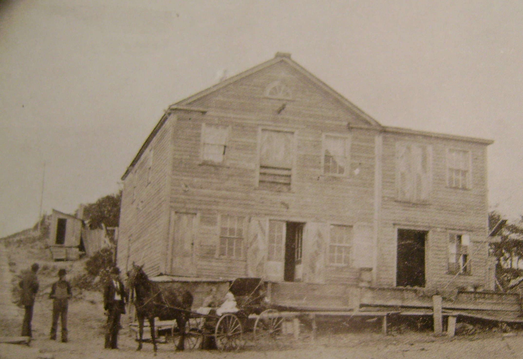 Second Mason County courthouse in Lincoln Village (now non-existent)